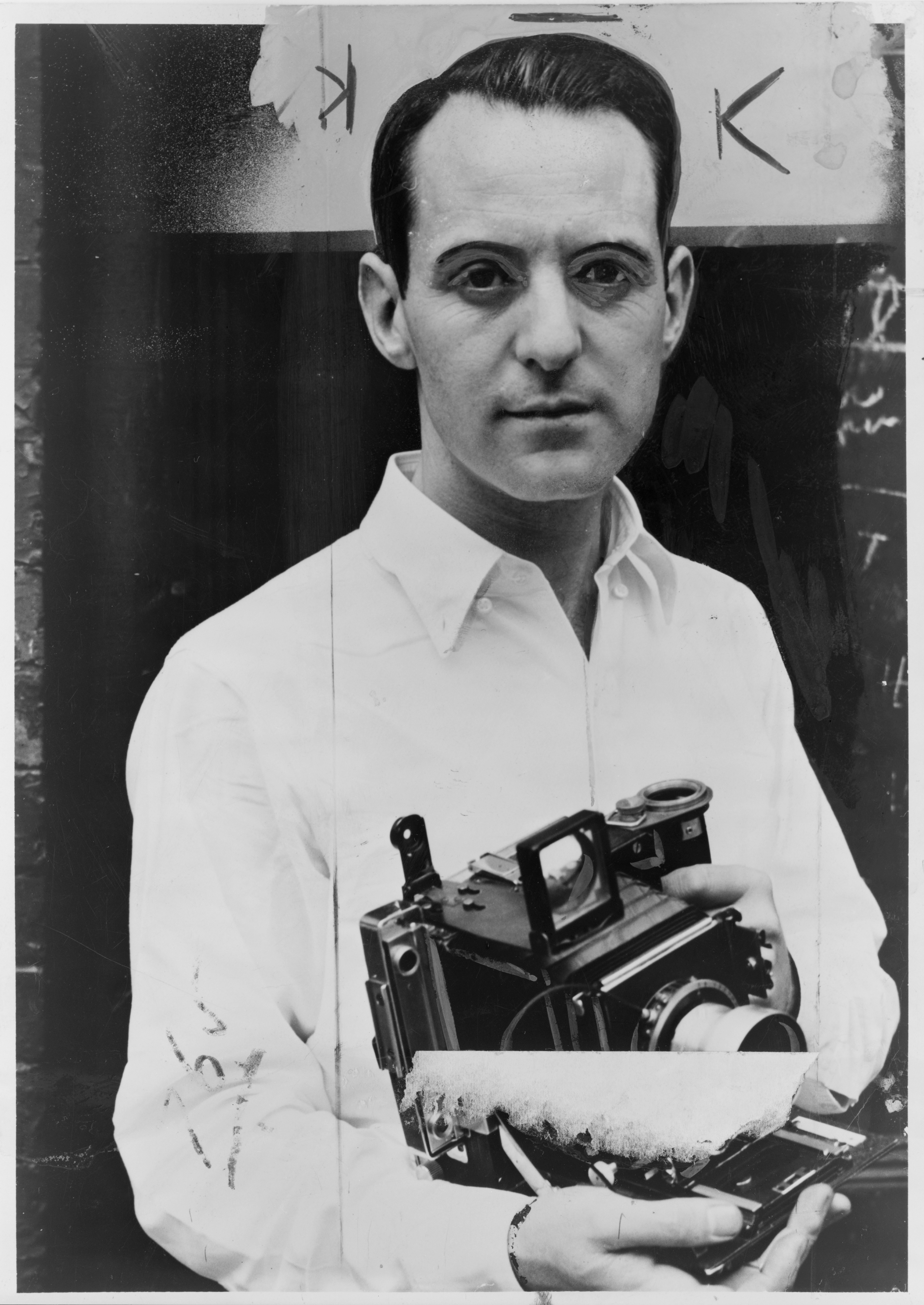 Photograph of Sheldon Dick by Janina Lester, taken for the New York World-Telegram